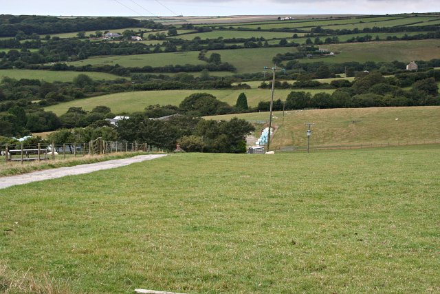 Land around Lantuel Farm. The farm itself is mostly hidden behind trees at the bottom of the near slope.